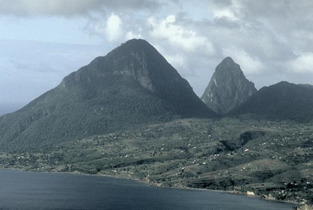 The Pitons, the dramatic landmarks of the island of St. Lucia, are the eroded plugs of two Pleistocene lava domes. Gros Piton (left) and the even steeper Petit Piton (right) are pre-caldera lava domes west and SW of the late-Pleistocene Qualibou caldera. The lower ridge in the right foreground is the SW-most of the 3 Bois d'Indie Franciou andesitic lava domes. They were constructed along a NE-trending fault.